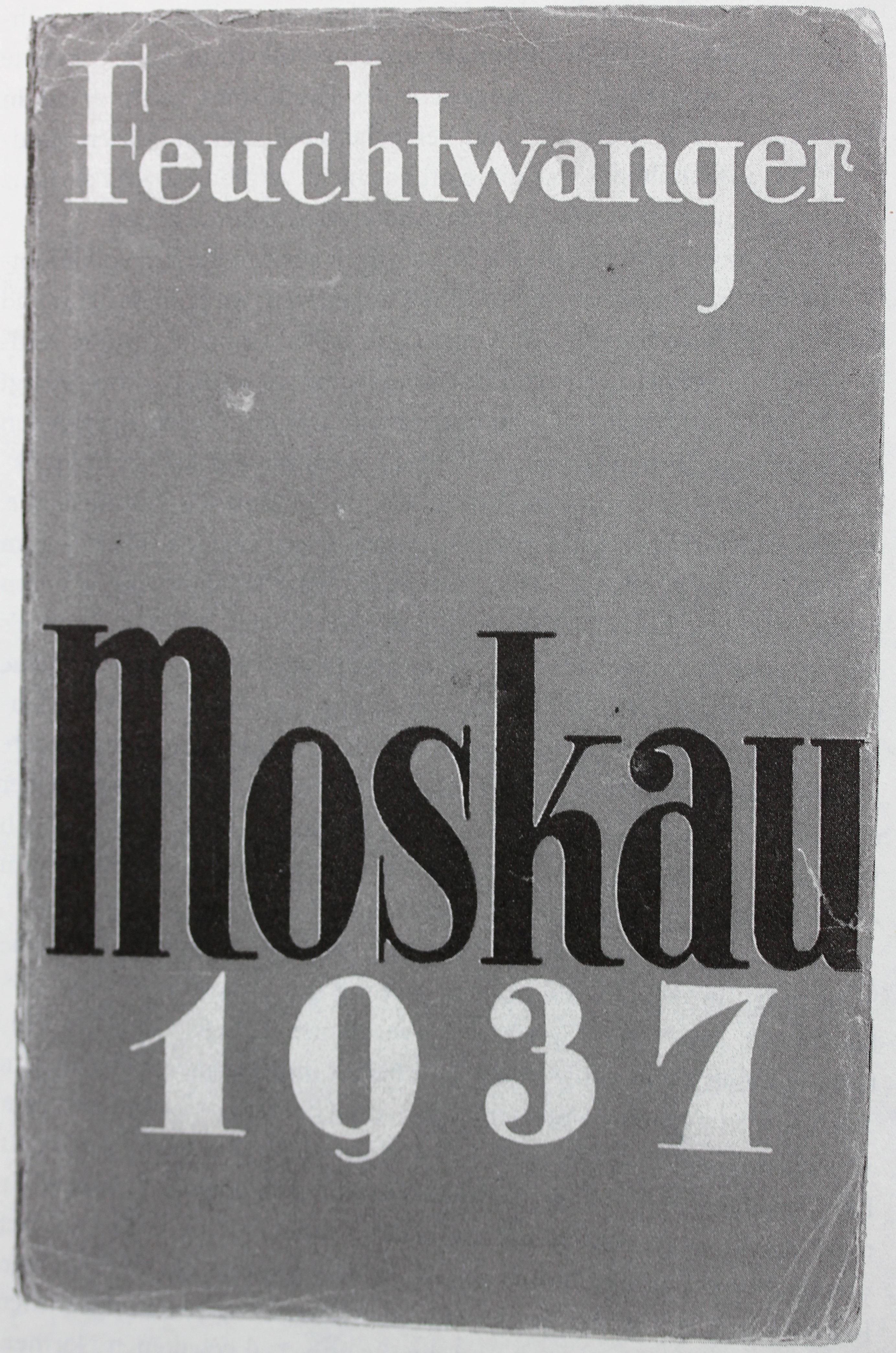 Cover of Lion Feuchtwanger: Moskau 1937